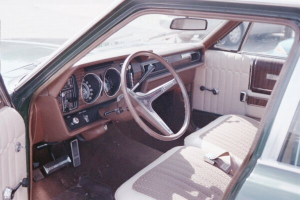 Interior of a 1969 Ambassador SST four-door sedan by American Motors Corporation (AMC). This is the standard interior for this model, including the individually adjustable and reclining front seats. Air conditioning was also standard on Ambassadors. This car has the optional tilt-steering wheel.